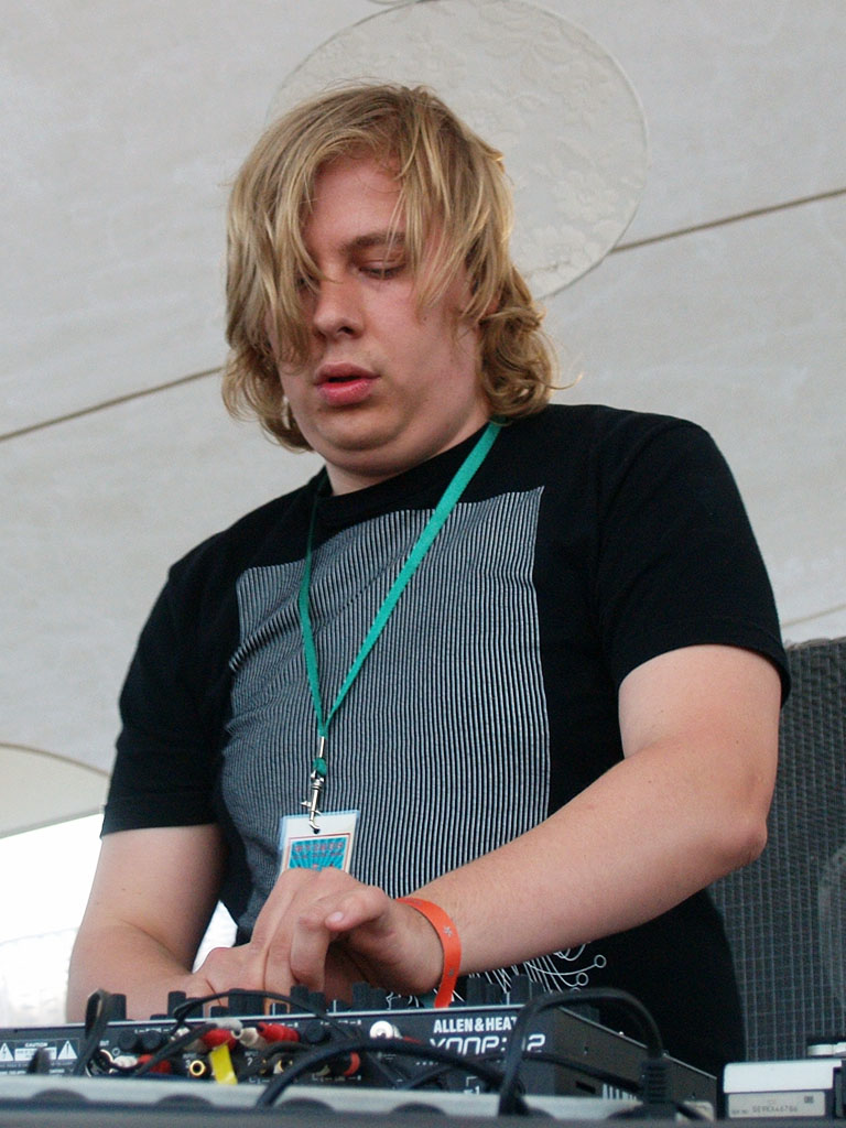 Dominik Eulberg